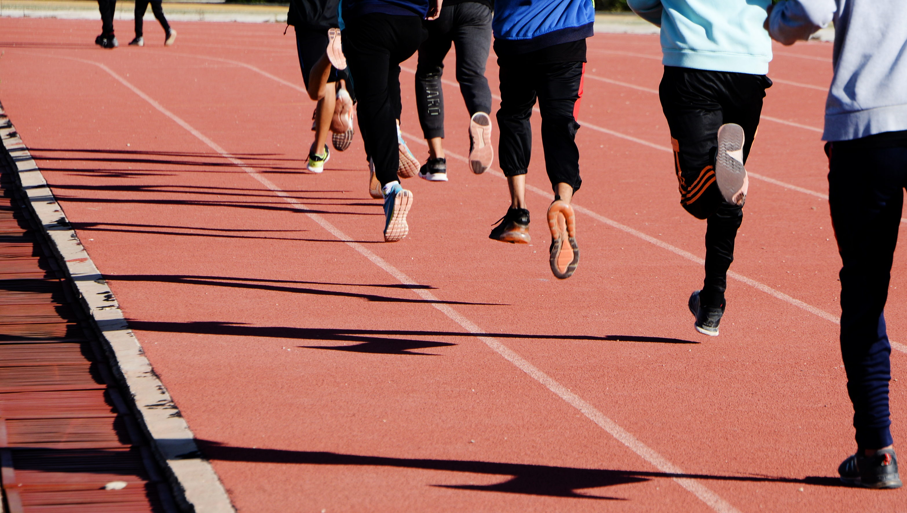 This is an image with the theme "Africa on the Move or Transport" from: Algeria